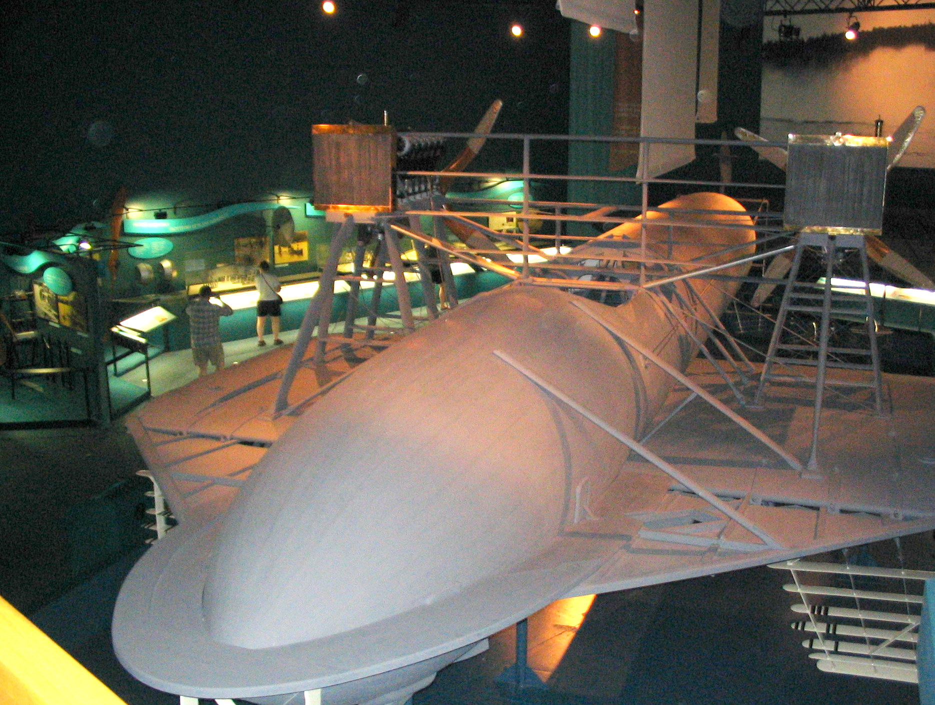 View of the interior of the Alexander Graham Bell Museum in Baddeck, Nova Scotia, Canada. In the centre foreground is Bell's large HD-4 hydrofoil which held the world's water speed record for several years.